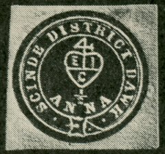 This is a scan I made of a low resolution black-and-white copy of a blue Scinde Dawk. The "underlying" stamp itself is over 150 years old, clearly a work in the public domain.